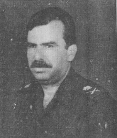 Photo of Iraqi General Abdel Wahed Shannan al-Ribat during his time as the Commander of the Iraqi Army's 6th Corp in the late 1980's.